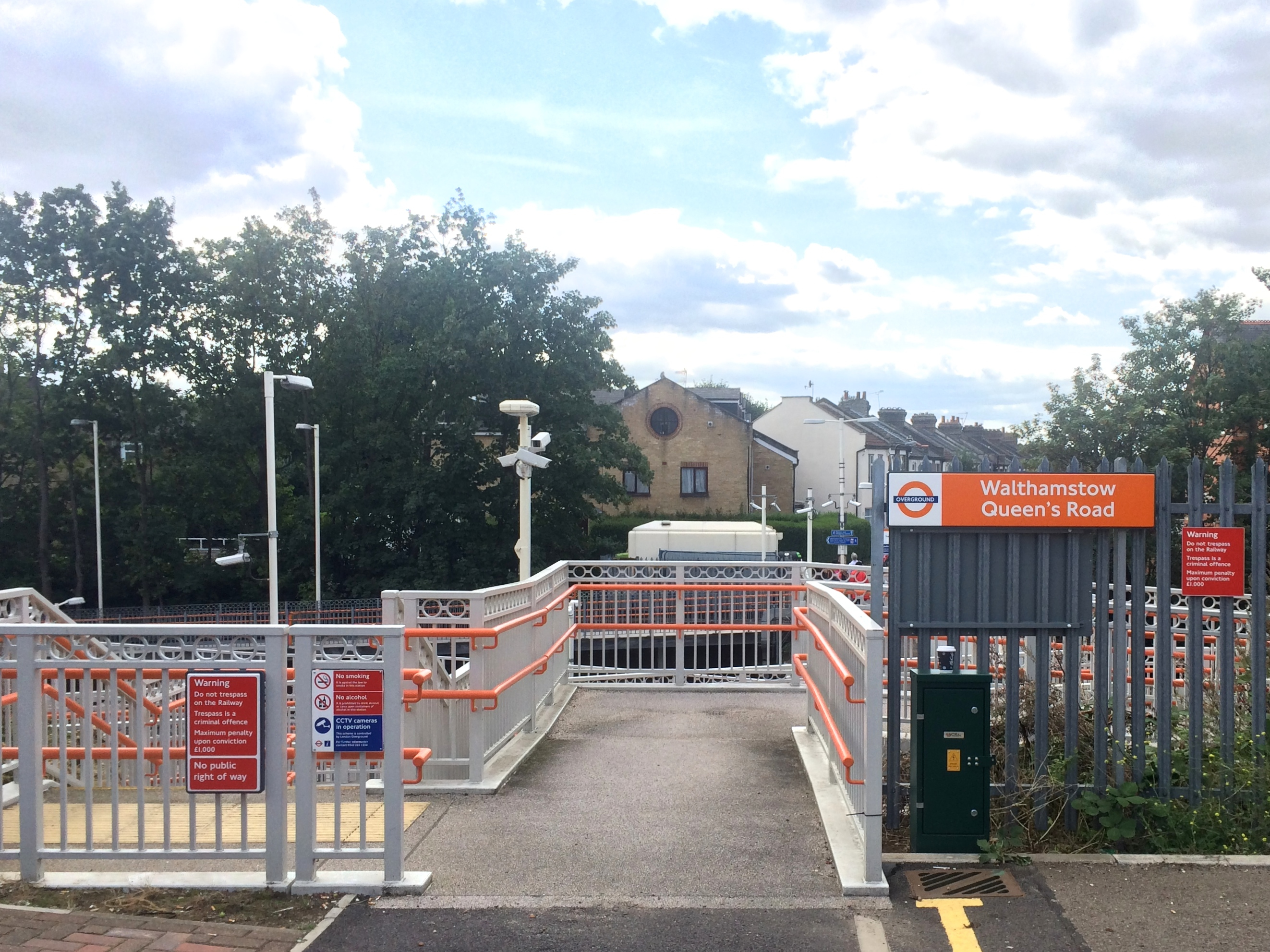 A photo of the recently opened entrance to Walthamstow Queen's Road London Overground Station which connects, via Ray Dudley Way, to Walthamstow Central Station.